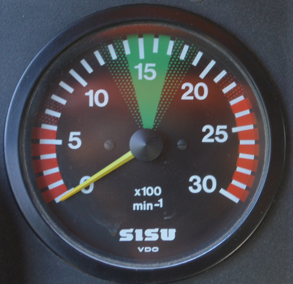 The green area is most economical to run engine.